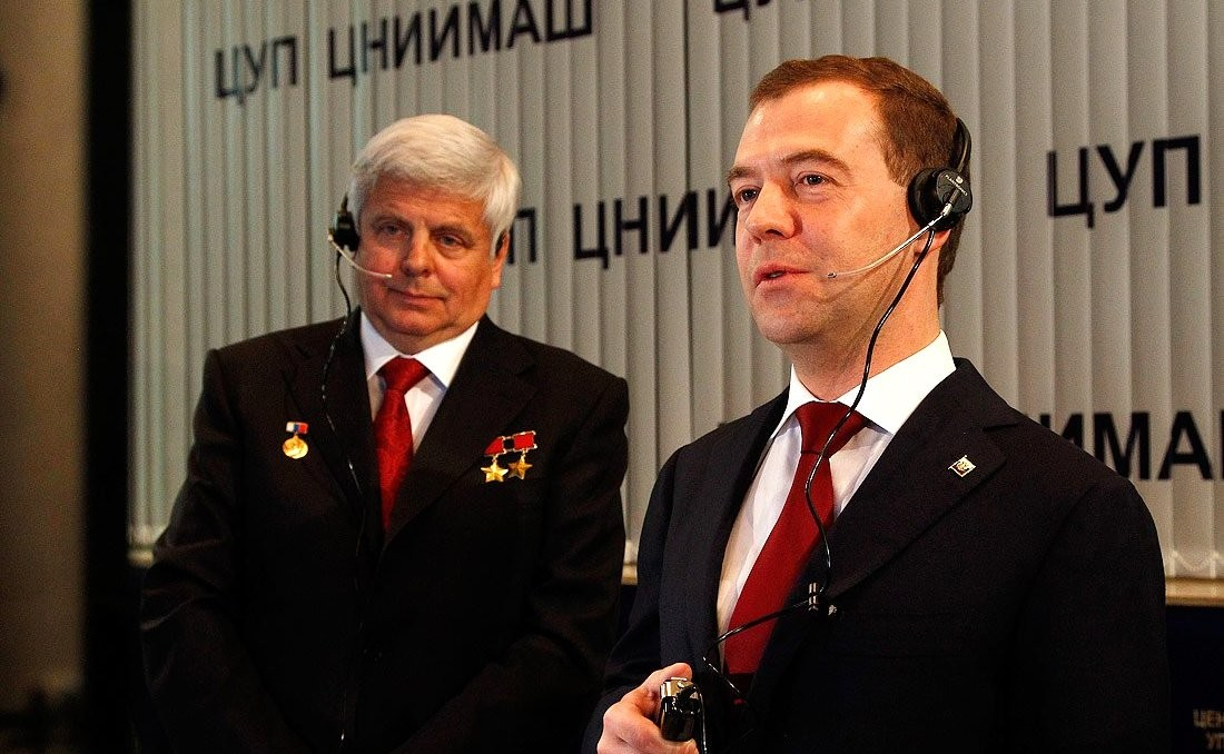 Visit to the Mission Control Centre. During a conversation with the International Space Station crew. With flight director Vladimir Solovyov.